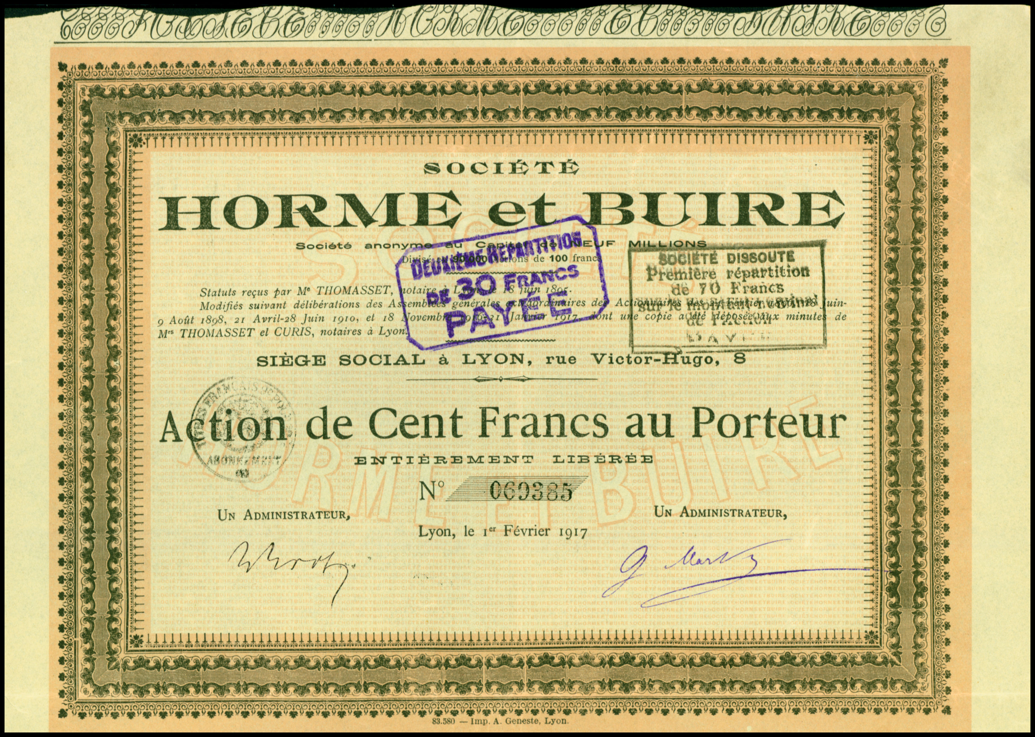 Share of the Soc. Horme et Buire, issued 1. February 1917